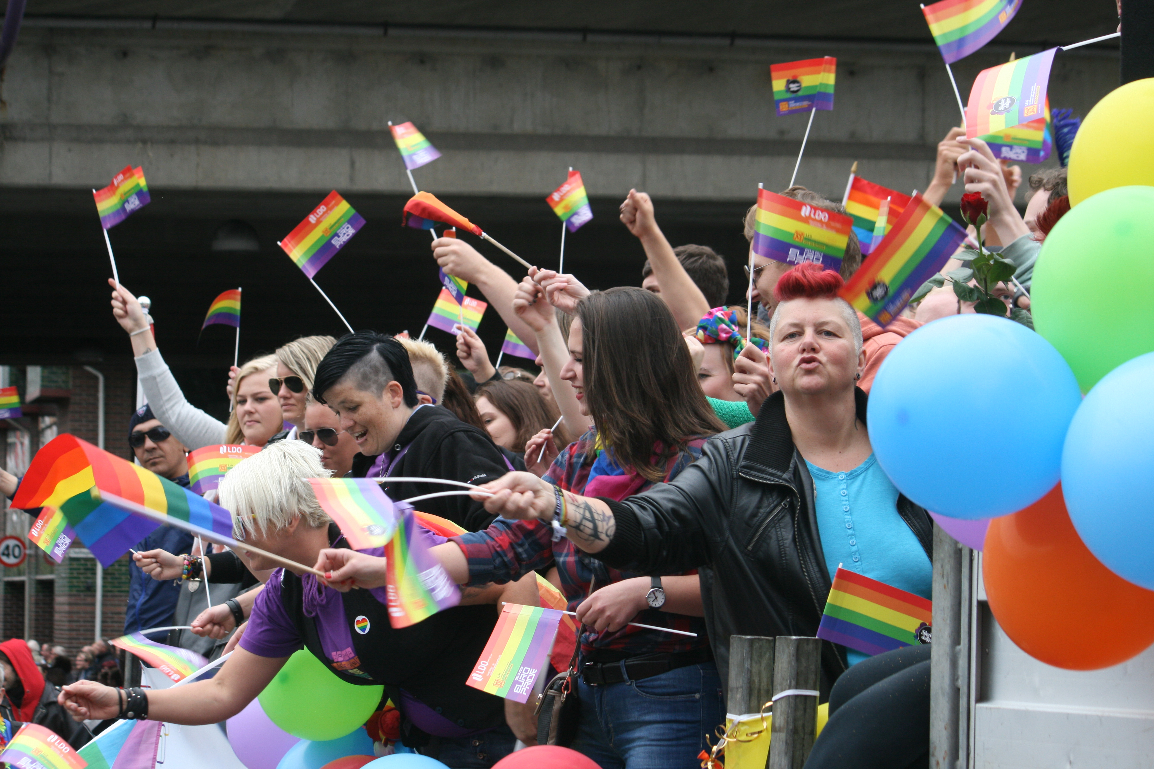 From the Europride parade in Oslo, Norway June 28th, 2014